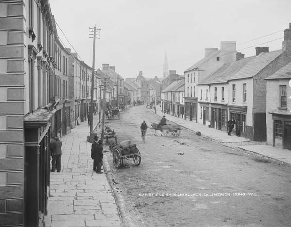 Photograph taken between 1880 and 1914 Format: glass negative Part of: National Library of Ireland Lawrence Collection. For more photographs in this collection see National Library of Ireland catalogue: Reference number: L_ROY_10343